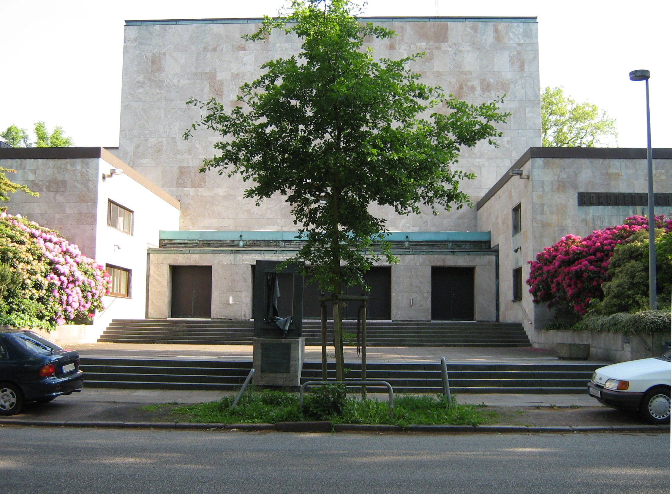 Former Synagogue Oberstraße, Hamburg-Havestehude, now Rolf-Liebermann-Studio of the Northern German Broadcasting Corporation (NDR)